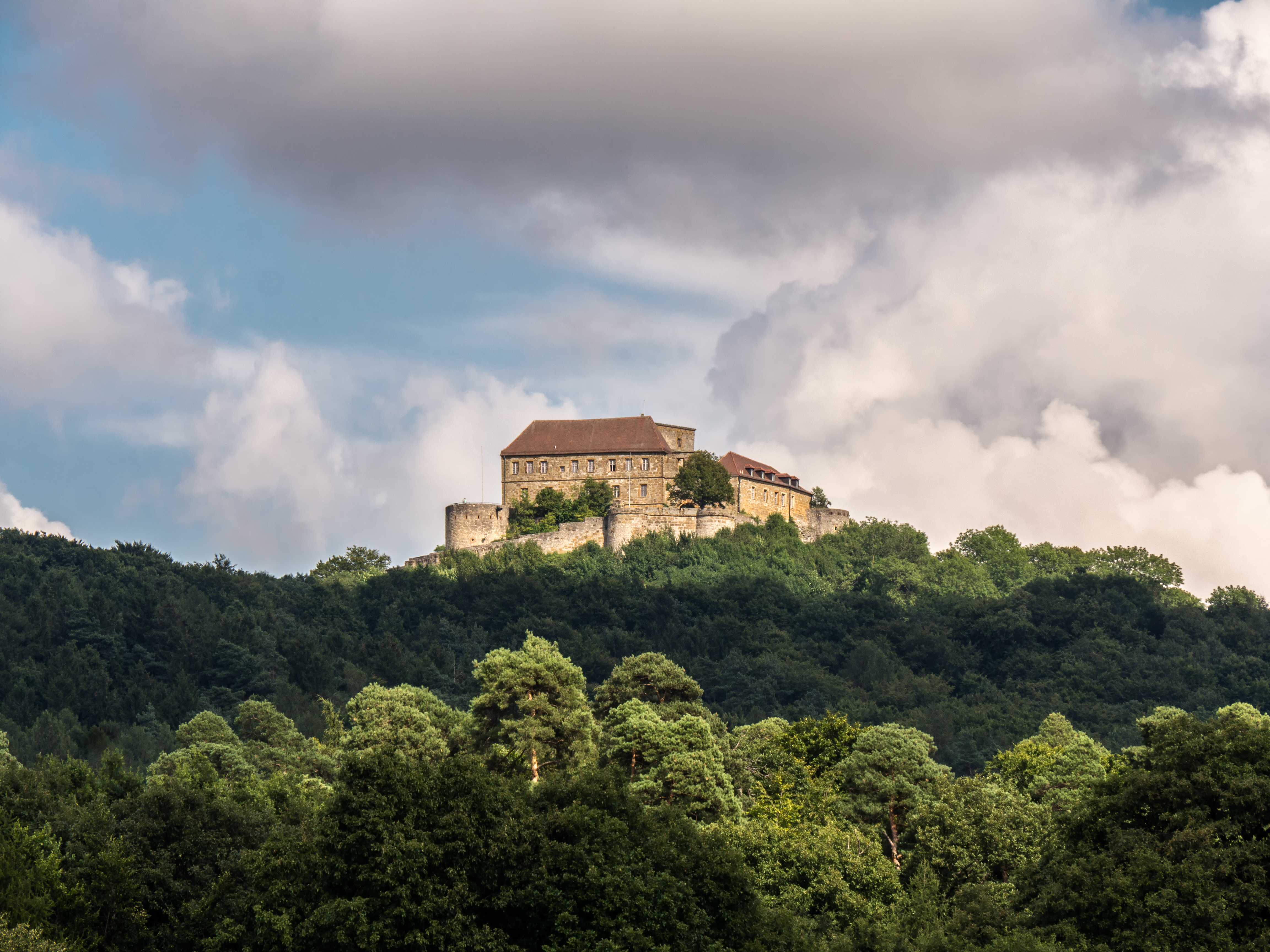 Giechburg in Schesslitz near Bamberg